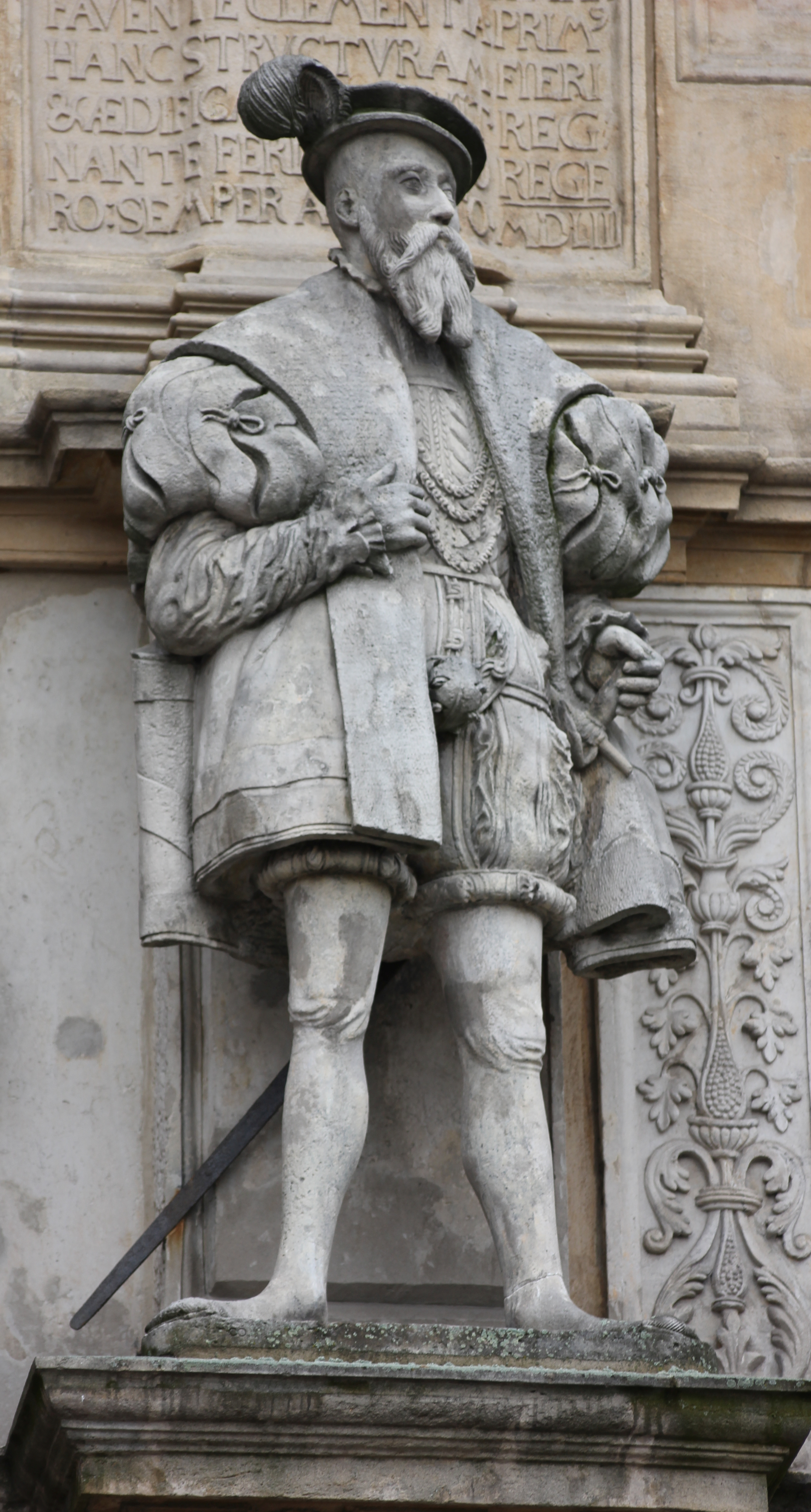 Brzeg - Castle